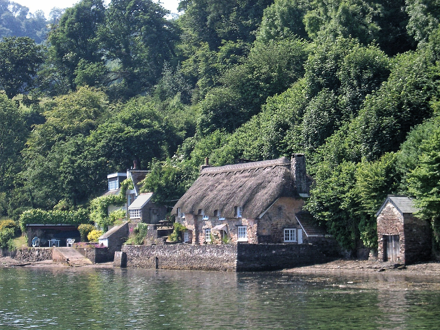 House at Dart river in Dittisham, Devon, England